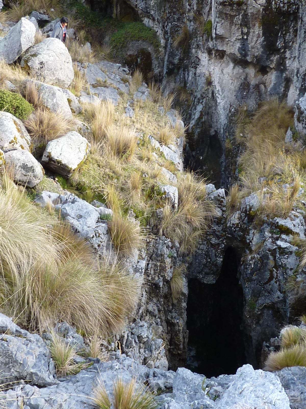 entrance into pumaocha cavern (aka sima, tragedero, or cueva pumacocha right near lake pumacocha.